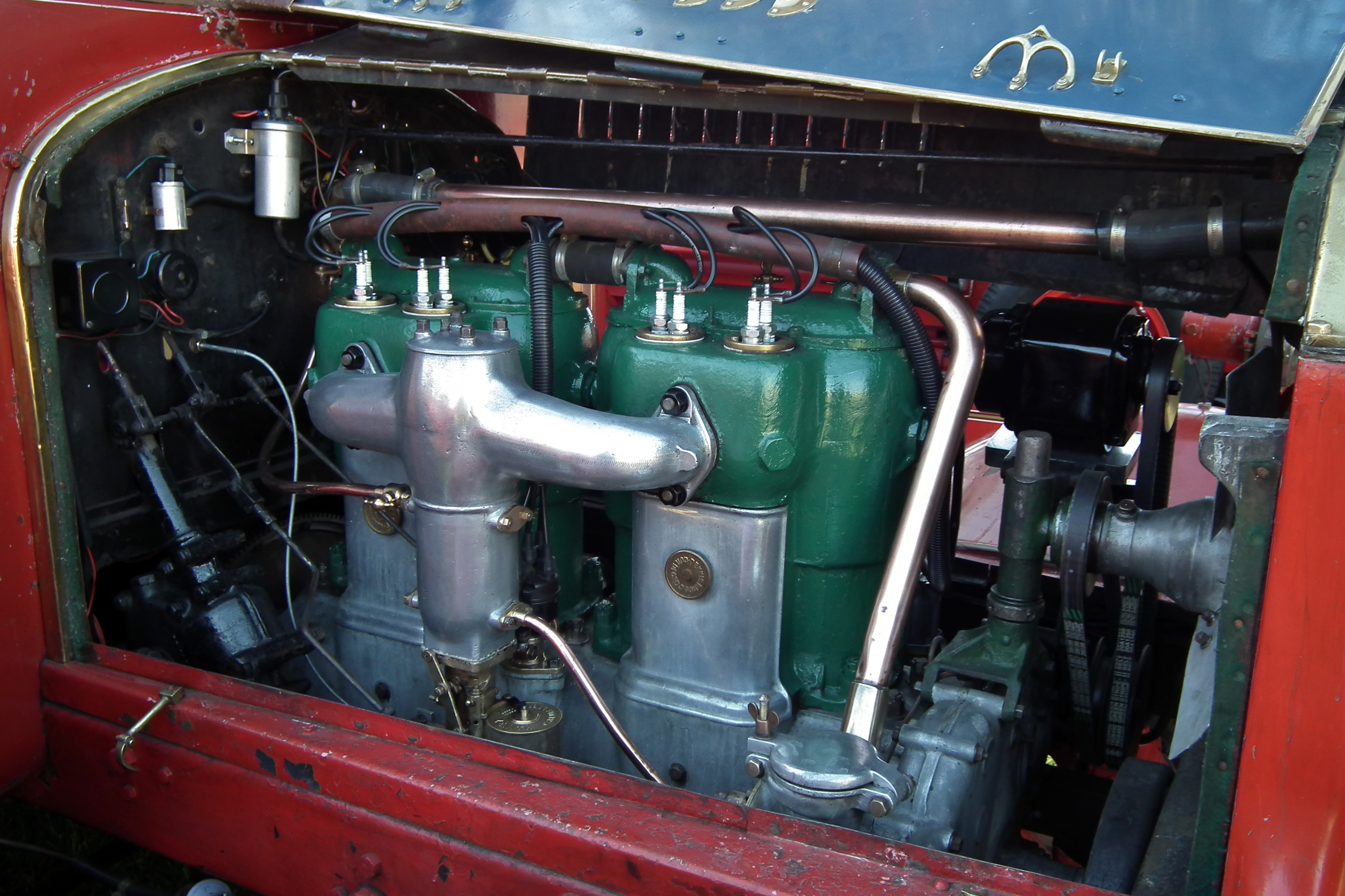 1928 Dennis Model 500/700 (gallon) fire truck engine. Formerly operated by the New South Wales Fire Brigade. Part of the Museum of Fire Collection. Taken at the 2011 Sydney Antique & Classic Truck Show, held at the Museum of Fire in Penrith, NSW.